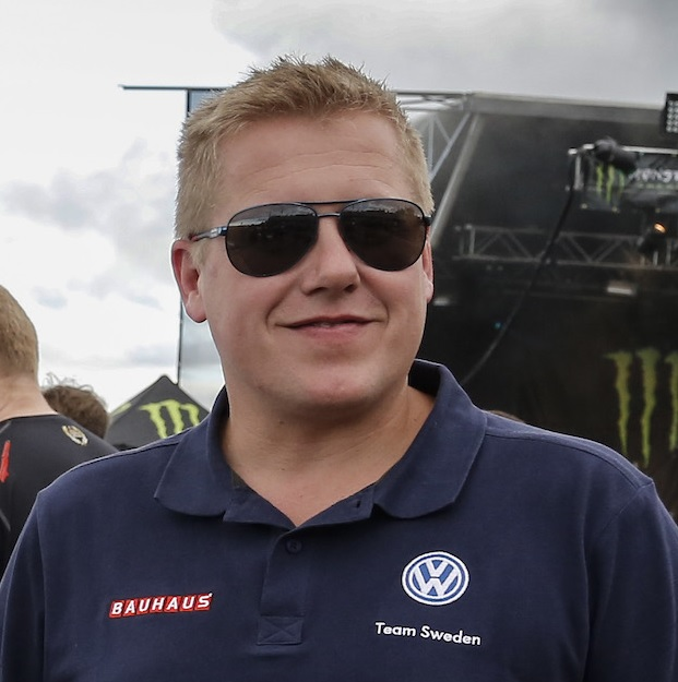 Norwegian rallycross driver Tord Linnerud. Round 7 of the 2015 FIA World Rallycross Championship at Circuit Trois-Rivières, Canada.